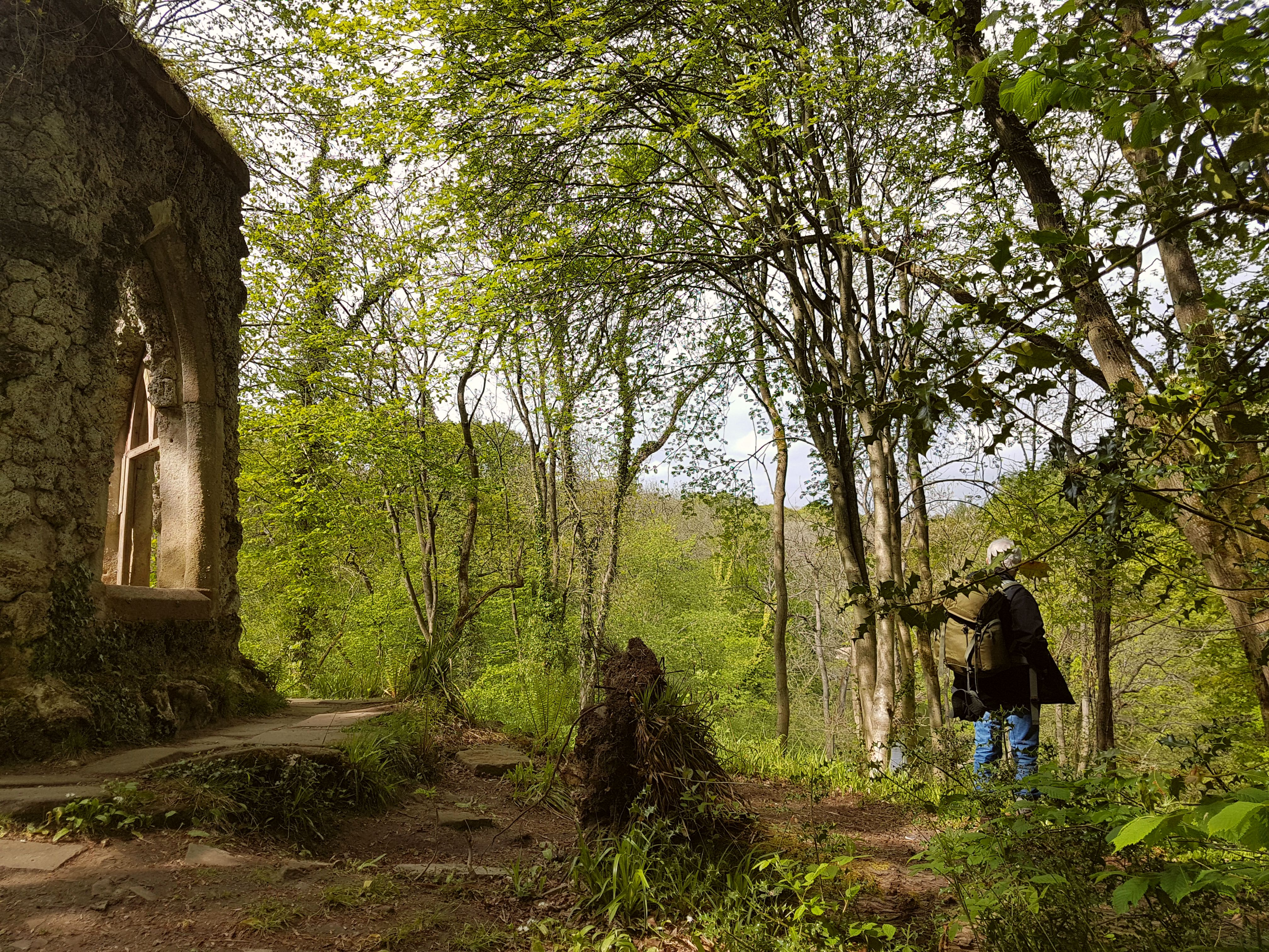 Hack Fall Wood, near Grewelthorpe, North Yorkshire, England. Showing woodland next to Fisher's Hall.